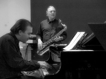 Jerry Bergonzi, Carl Winther